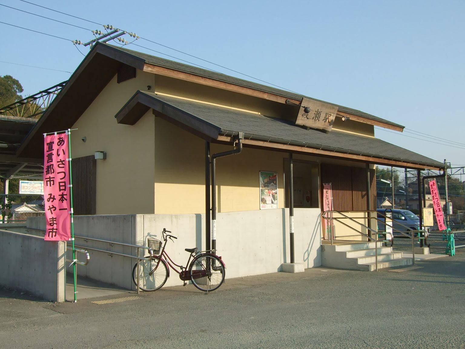 Wataze Station, Kagoshima Line, Kyushu Railway Company.